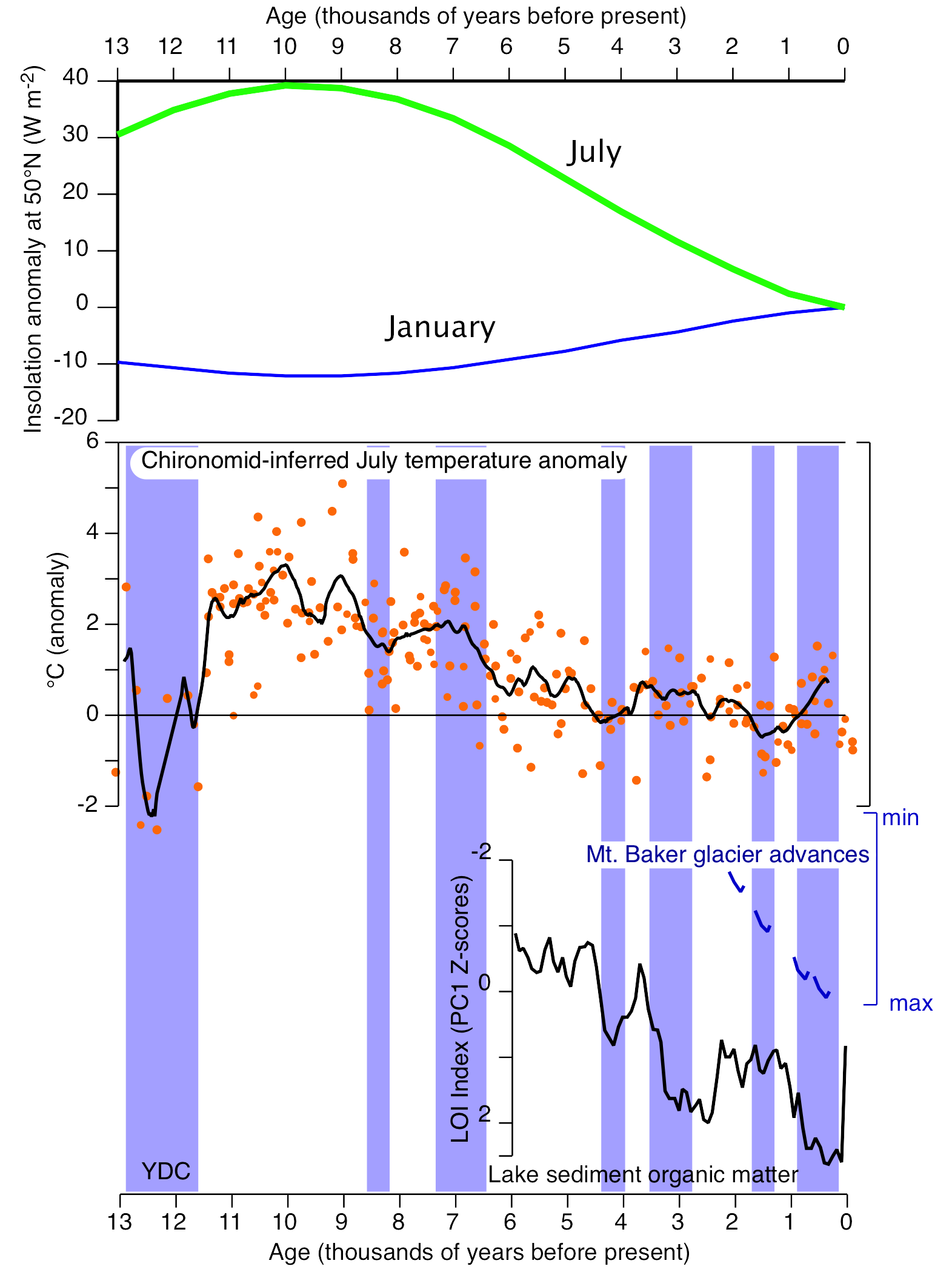 Selected paleoclimate and glacial-advance proxies from western Canada. Top: July and January insolation at 50°N, expressed as difference from today's values. Middle: Summer temperature reconstructed from fossil chironomid assemblages. Points indicate the temperature anomaly from a 0–2 kyr base period, and the smooth line shows a locally weighted (loess) smoothing in a 600-yr window (Gavin et al. 2011).[1] Bottom: The LOI index is the Z score of the first principal component of the loss-on-ignition of sediments from four glacial-fed lakes in southwest British Columbia (Menounos et al. 2008).[2] High values correspond to more clastic input and times of glacier advances. Times and relative magnitude of five glacial advances on Mount Baker, Washington, are overlaid on the LOI index (Osborne et al. 2012).[3] Blue bars indicate time of regional glacial advances (Menounos et al. 2008).[2] YDC=Younger Dryas Chronozone. "Abrupt Holocene climate change and potential response to solar forcing in western Canada". 2011. Quaternary Science Reviews 30: 1243-1255. "Latest Pleistocene and Holocene glacier fluctuations in western Canada". 2008. Quaternary Science Reviews 28: 2049-2074. "Latest Pleistocene and Holocene glacier fluctuations on Mount Baker, Washington". 2012. Quaternary Science Reviews 49: 33-51.